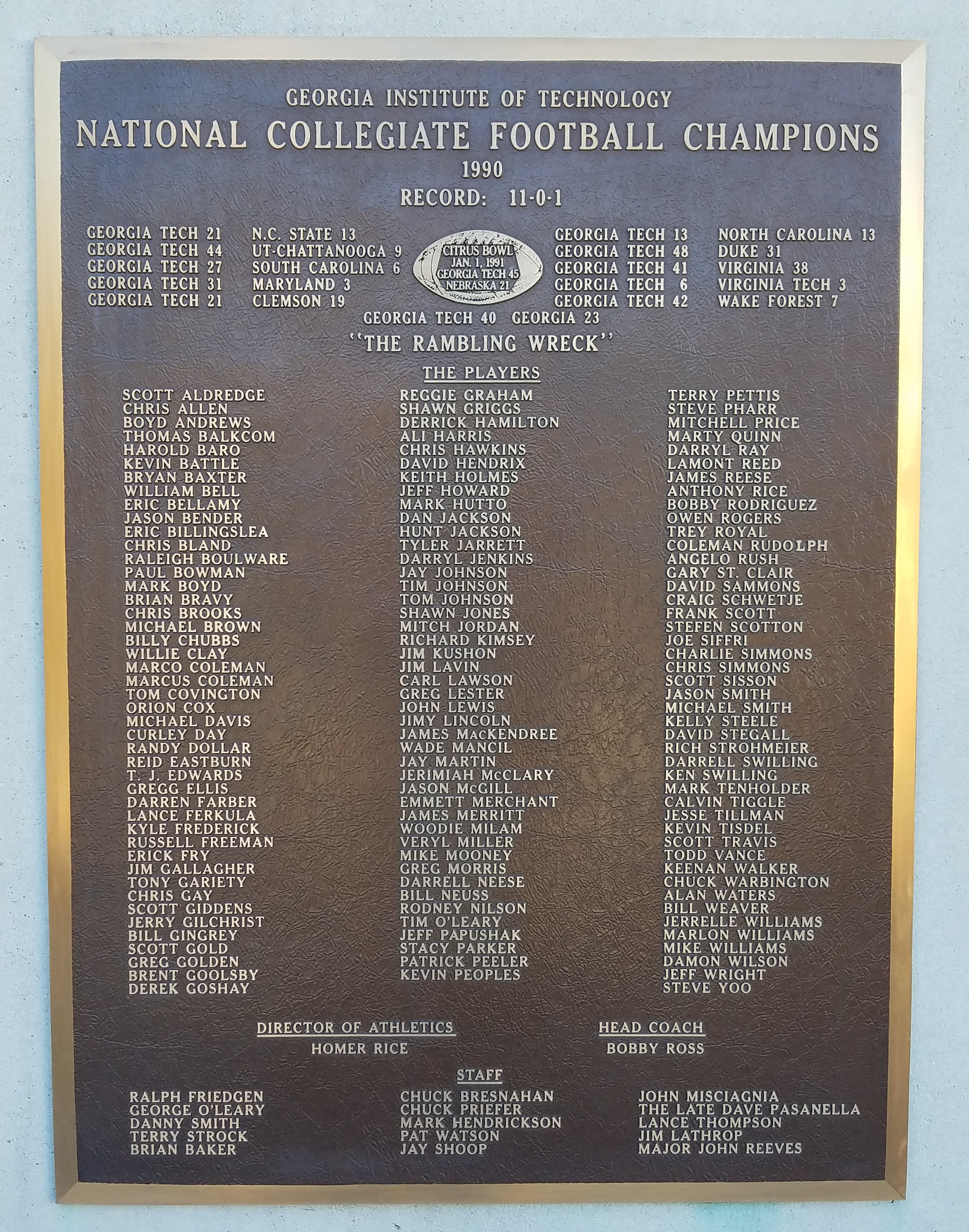 Plaque commemorating the 1990 Georgia Tech Yellow Jackets football national championship team.